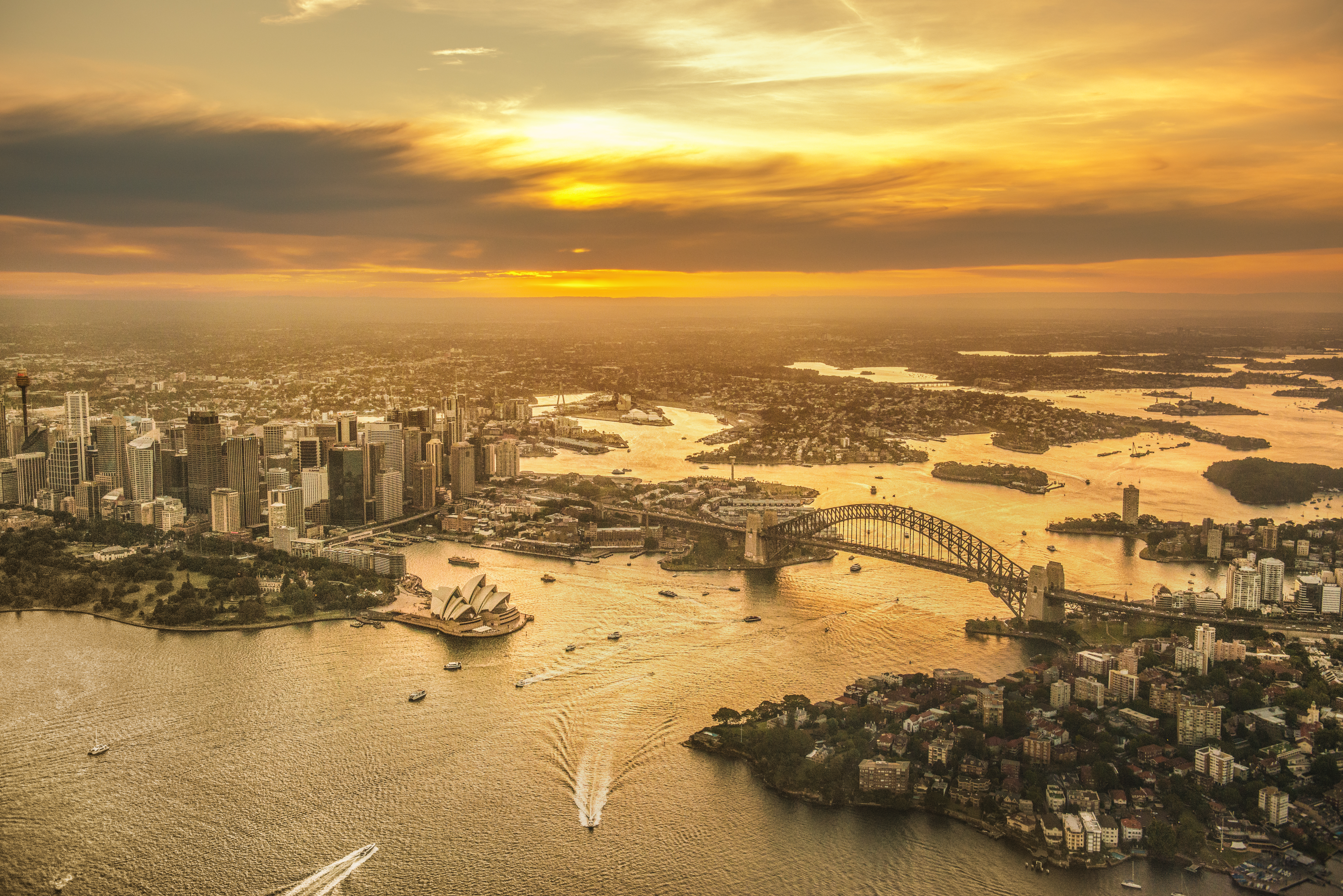 Aerial photograph of Sydney, taken from a helicopter.